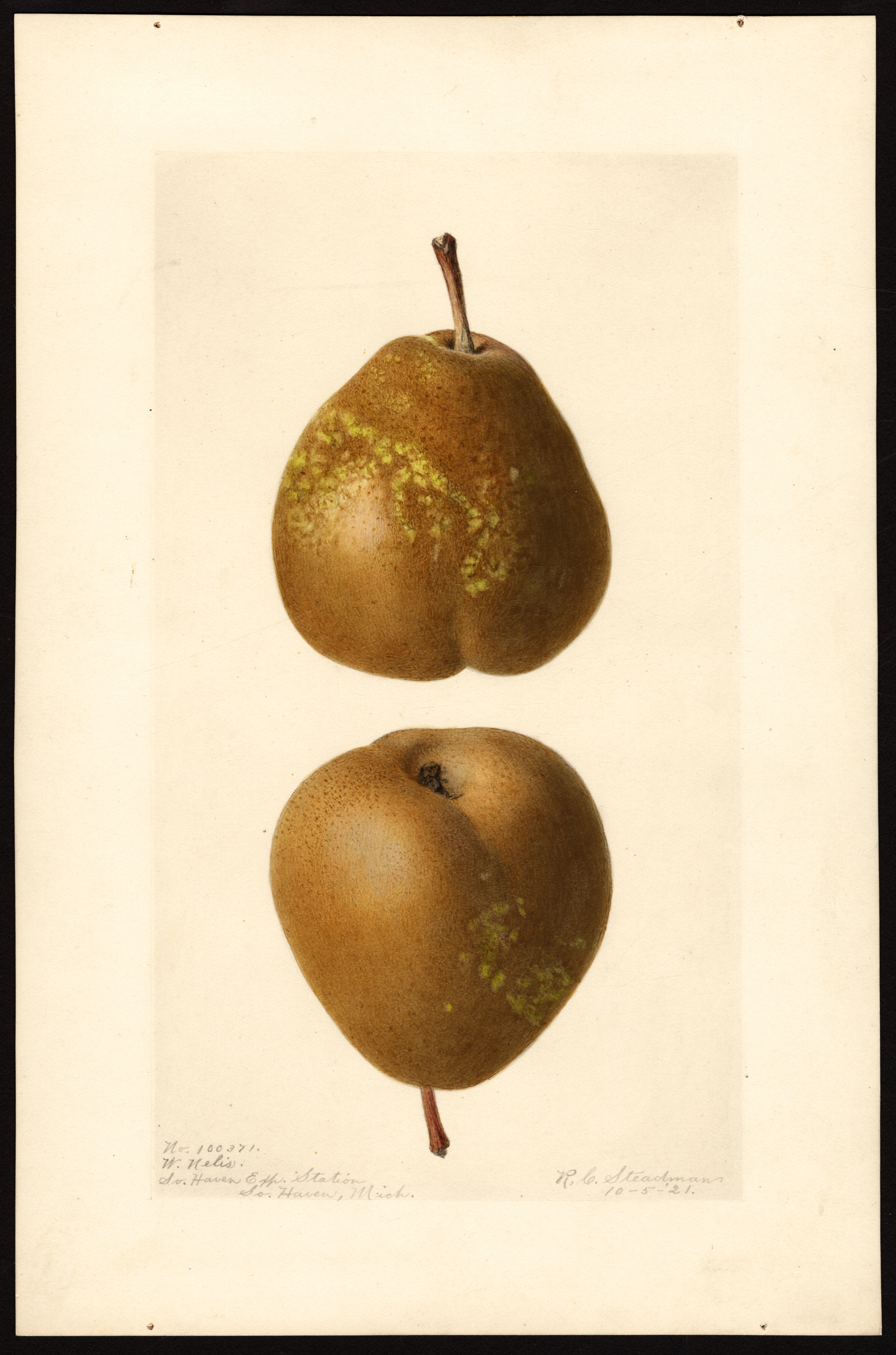 Image of the Winter Nelis variety of pears (scientific name: Pyrus communis), with this specimen originating in South Haven, Van Buren County, Michigan, United States. Source: U.S. Department of Agriculture Pomological Watercolor Collection. Rare and Special Collections, National Agricultural Library, Beltsville, MD 20705.